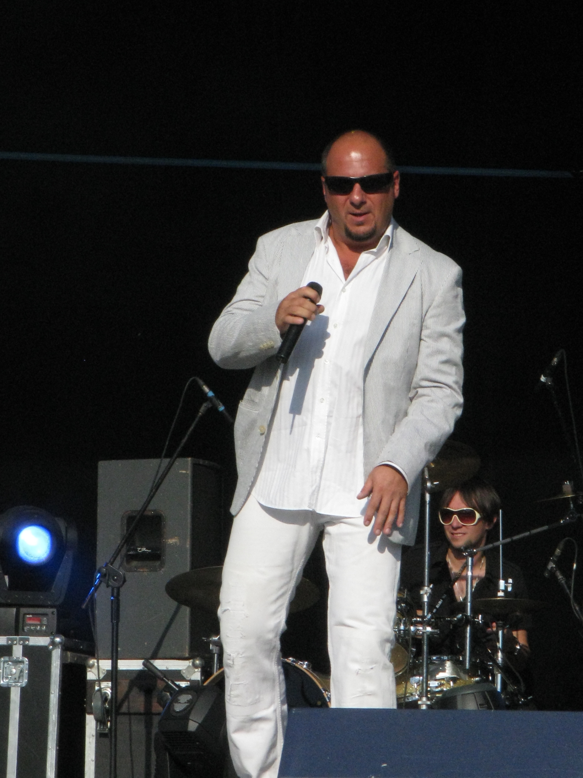 Piotr Gąsowski